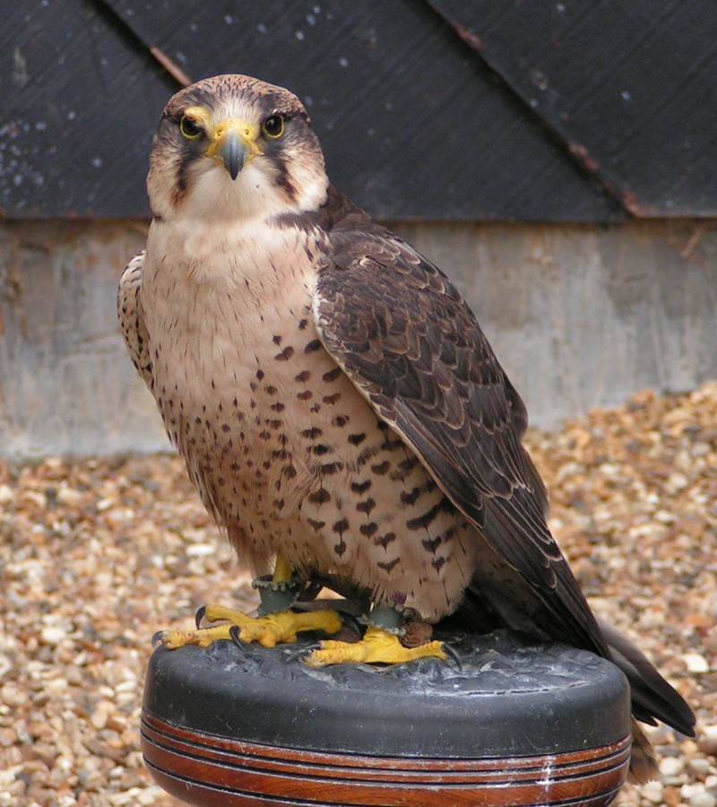 Lanner Falcon Falco biarmicus. Photo by sannse, Colchester Zoo, 2 June 2004.